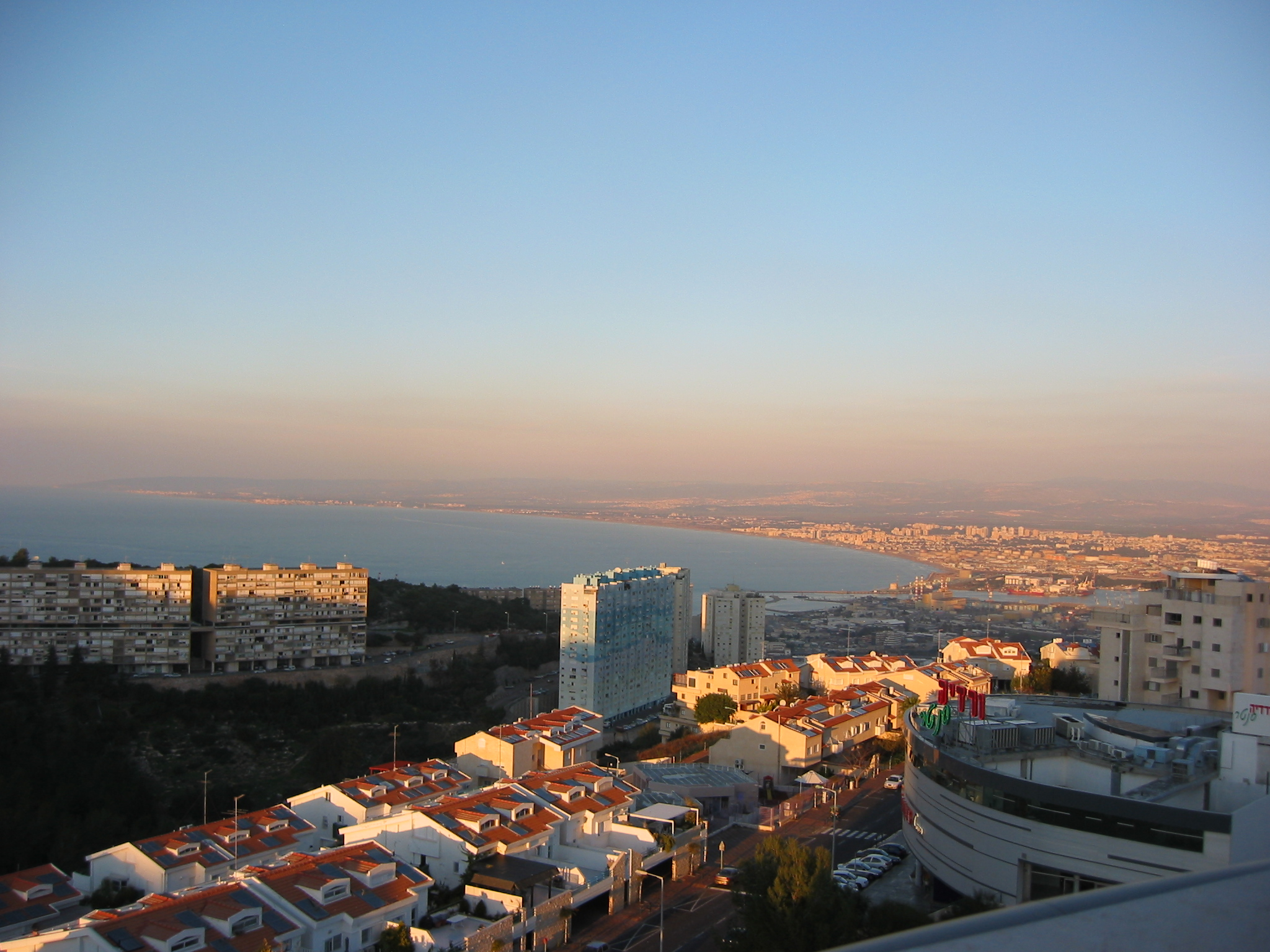 Evening descends on Vardiya, Haifa.